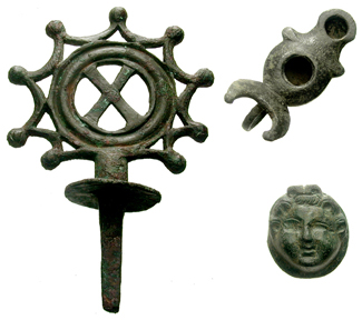 BYZANTINE. Bronze Crozier Finial. Circa 6th-7th century AD. Height 145mm. An open-work Greek X cross in a medallion surrounded by rayed border. A square spike for insertion in the staff. Brown and green patina, some verdigris spots // Plus a Roman-Byzantine bronze oil lamp with crescent finial, length 70mm // And a bronze roundel, 45 mm diameter, with a high relief facing head (gorgoneion?).